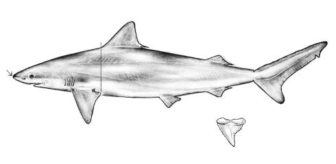 Blacknose shark (Carcharhinus acronotus), from Grace, M. (2001). "Field Guide to Requiem Sharks (Elasmobranchiomorphi: Carcharhinidae) of the Western North Atlantic". NOAA Technical Report NMFS 153.